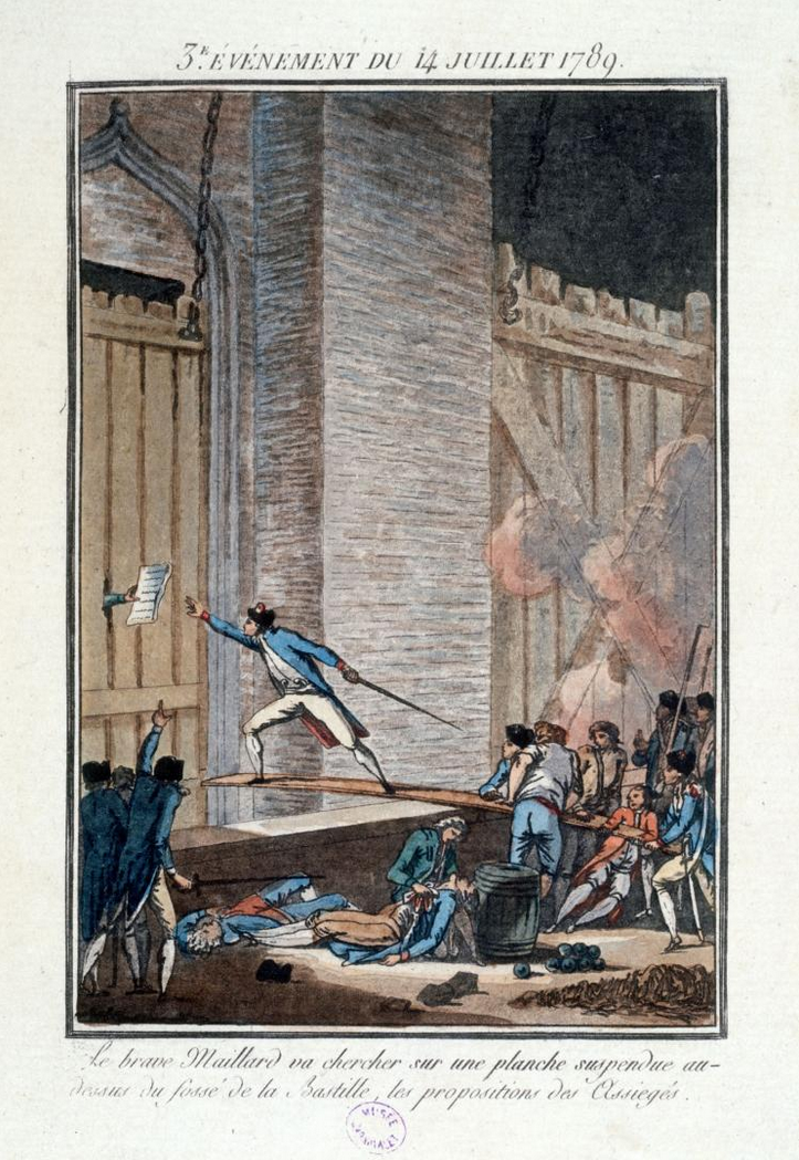 The Storming Of The Bastille Maillard (1763-94)